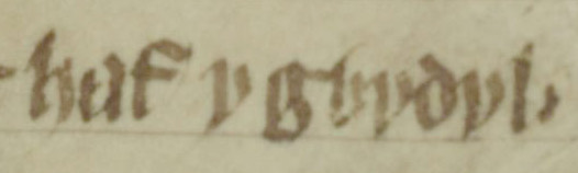 Excerpt from folio 254r of Oxford Jesus College MS 111. The excerpt appears to concern the involvement of Rǫgnvaldr Guðrøðarson, King of the Isles (died 1229) in Wales. The excerpt reads: "haf y gỽydyl".